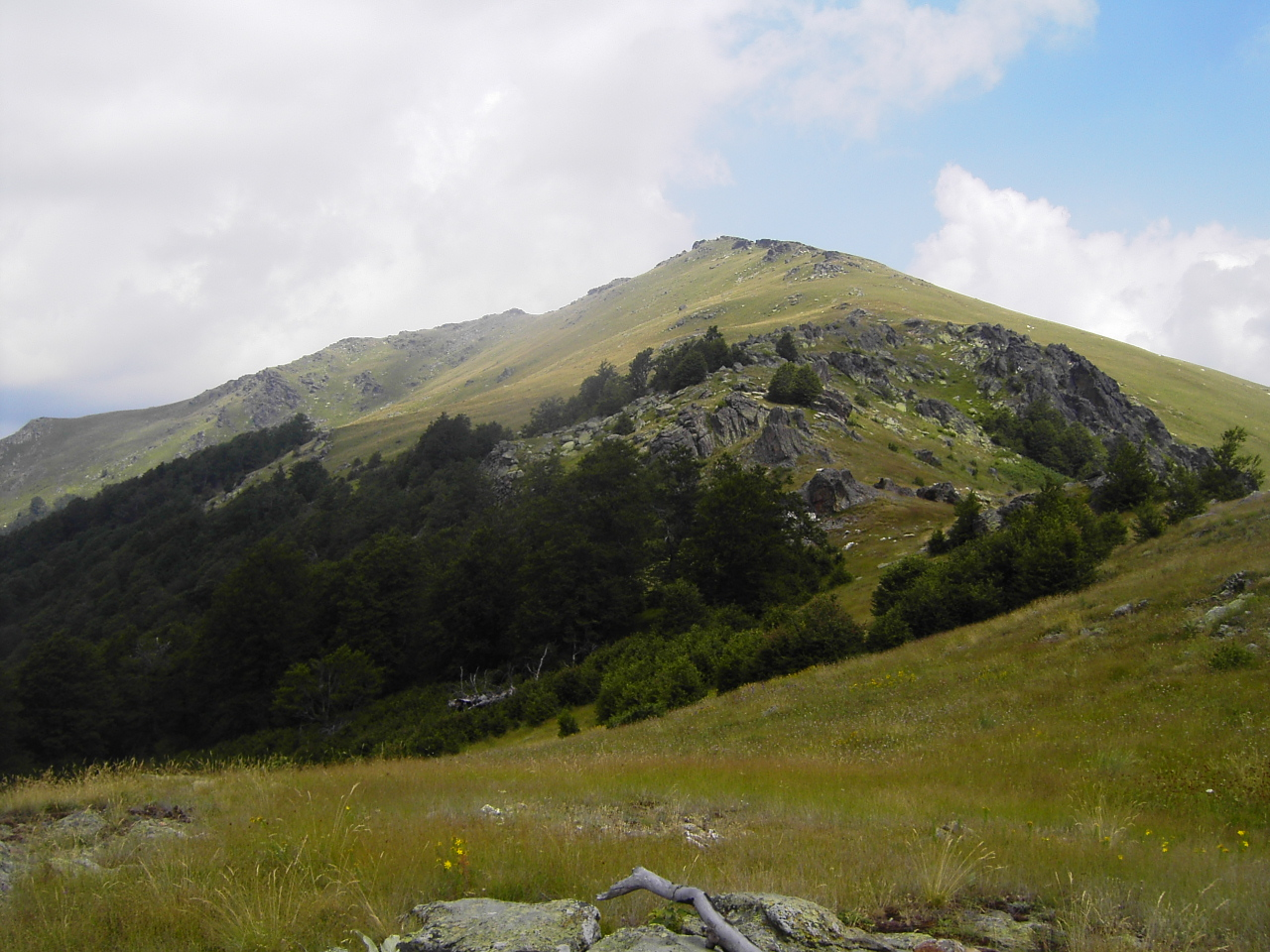 Dobra Voda Mountain, Macedonia